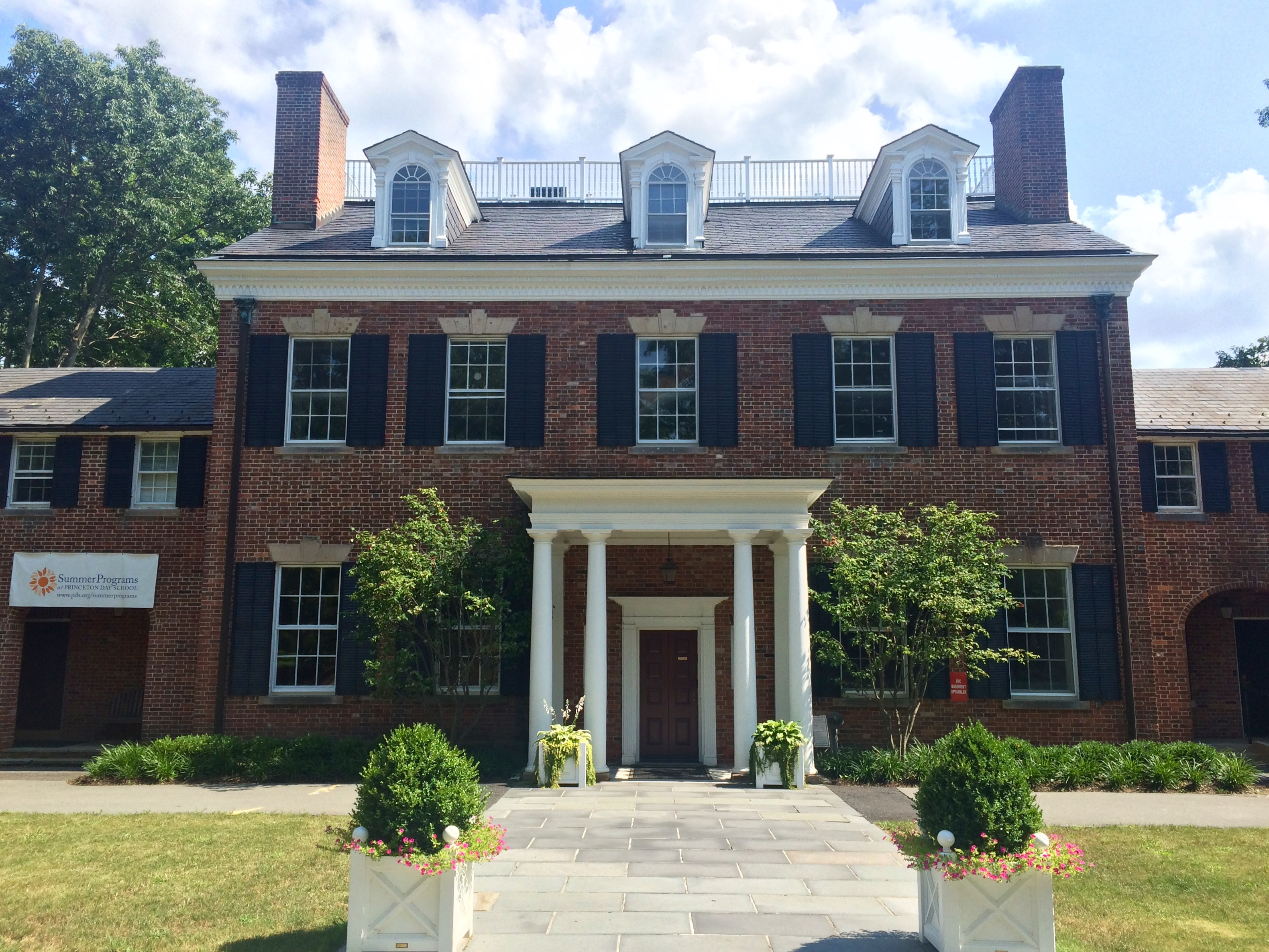 Colross (also historically known as Belle Air and Grasshopper Hall) is a Georgian mansion and former estate in Old Town Alexandria in the U.S. state of Virginia. Colross is currently the administration building for Princeton Day School in Princeton, New Jersey.